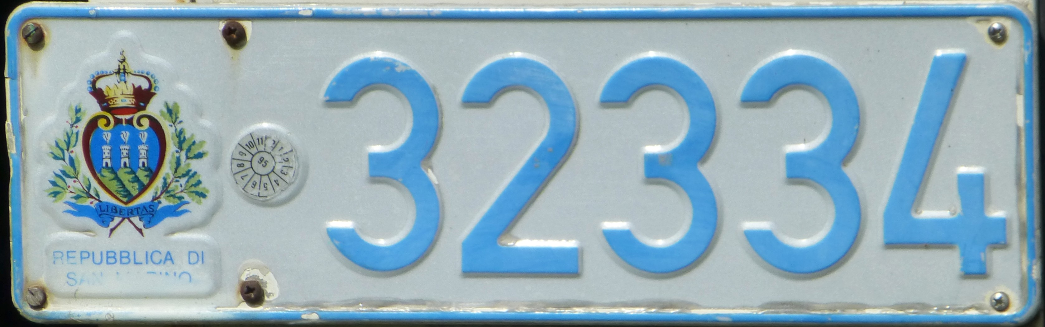 License plate from San Marino, 1987-1993